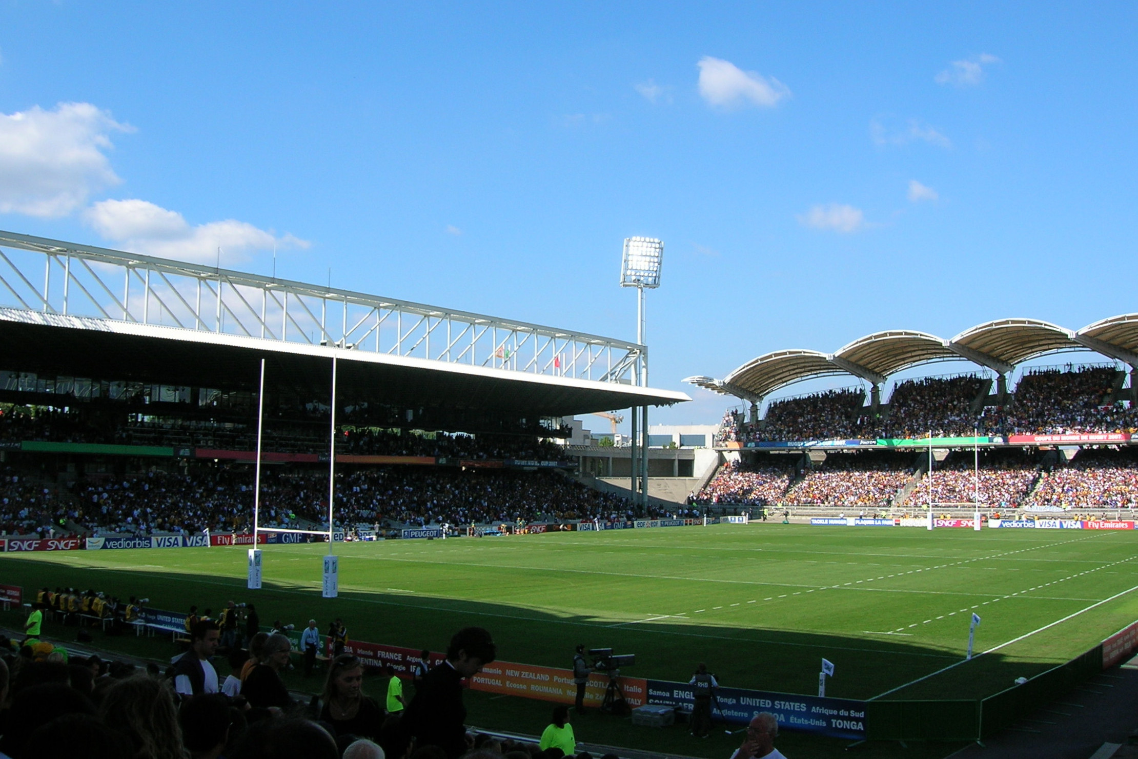 Lyon's stade de Gerland during the 2007 Rugby World Cup, before pool match Australia-Japan.